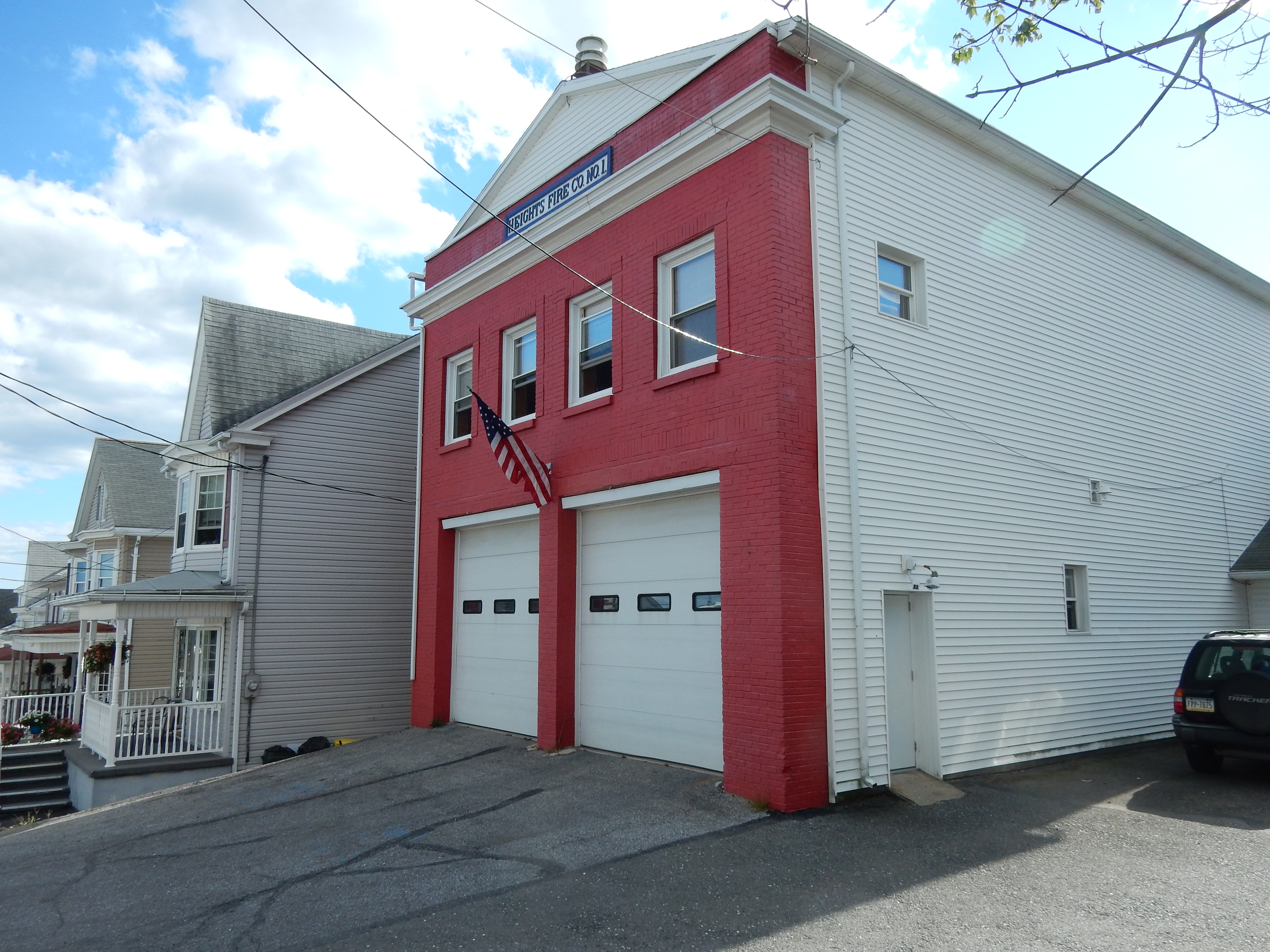 Heights Fire Co. No. 1 on Swatar Rd., Shenandoah Heights, West Mahanoy Township, Schuylkill County, Pennsylvania.